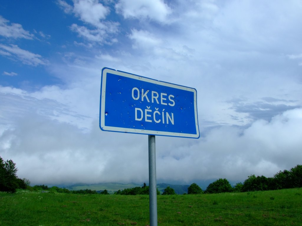 Czech road sign marking district boundary. In this instance the boundary between districts of Děčín and Ústí nad Labem.